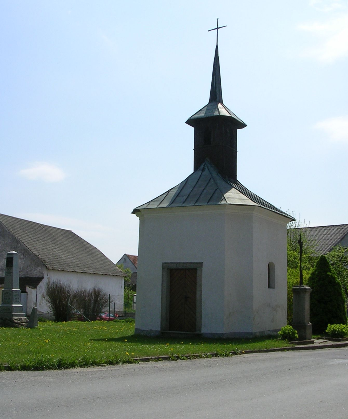 Dačice-Dolní Němčice, South Bohemian Region, the Czech Republic.